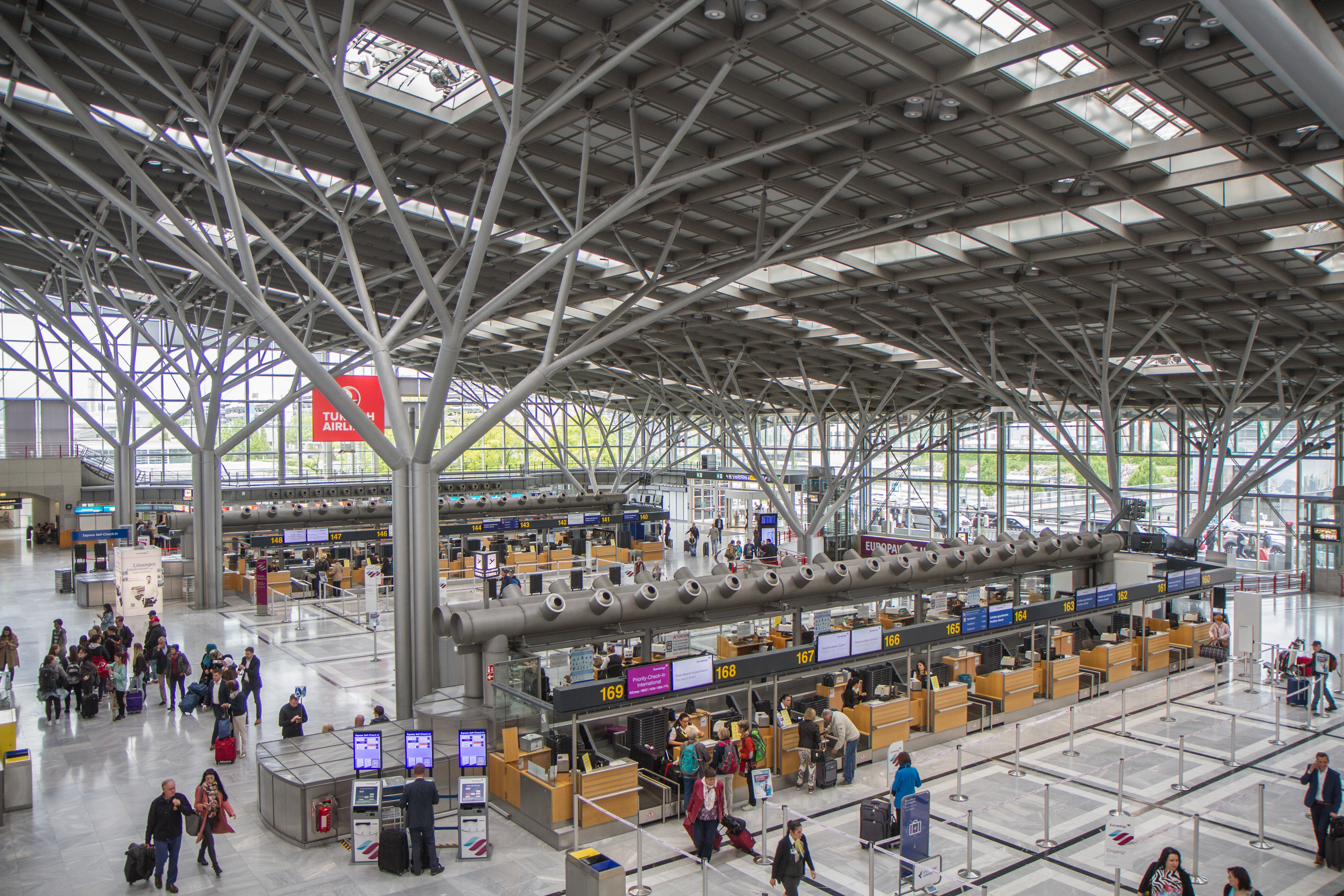 Terminal 1 at Stuttgart Airport with Tree-like Support Structures